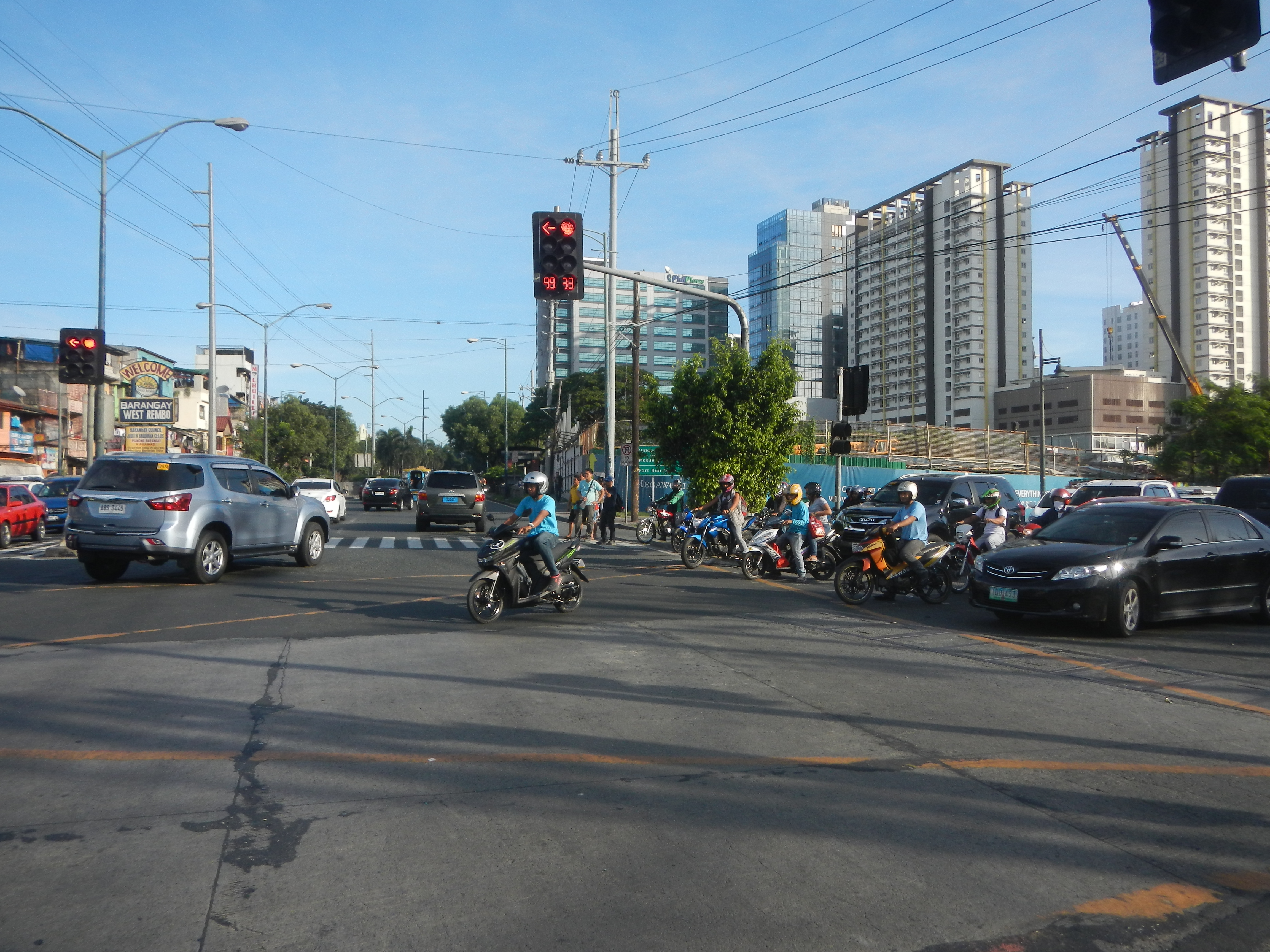 Central Enlistedmen's Barrio - Barangay 25 or Central Enlisted Men's Barrio along and from Kalayaan Avenue (Makati City) Kalayaan Avenue 14°38'28"N 121°3'16"E Kalayaan Avenue Lawton Avenue 14°32'10"N 121°2'24"E Avenue 14°33'48"N 121°3'15"E Phase II-A BGC Viaduct J. P. Rizal Extension, District II, Makati City 14°33'46"N 121°3'34"E J. P. Rizal Street 14°34'18"N 121°0'57"E District II, List of barangays of Metro Manila, Legislative districts of Makati, Barangays Cembo 14°33'54"N 121°3'2"E West Rembo 14°33'40"N 121°3'36"E East Rembo 14°33'11"N 121°3'42"E Barangay Northside, Makati City - Barangay 30 14°33'48"N 121°3'15"E Makati City (beside and bounded, upon the Pasig City Welcome - Boundary Buting Monument in Kalayaan Avenue, East Rembo, Makati City in List of barangays of Metro Manila, Barangay Buting 14°33'19"N 121°4'8"E Pasig City (Note: Judge Florentino Floro, the owner, to repeat, Donor Florentino Floro of all these photos hereby donate gratuitously, freely and unconditionally all these photos to and for Wikimedia Commons, exclusively, for public use of the public domain, and again without any condition whatsoever).